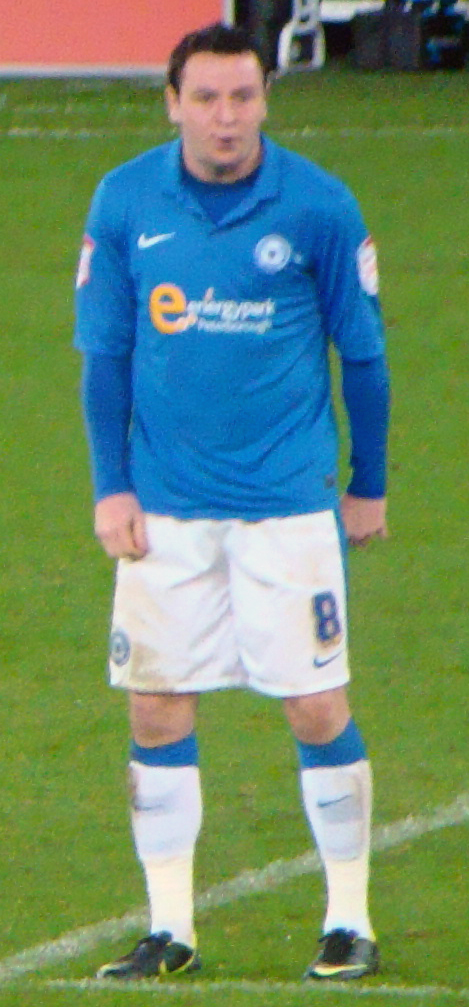 15/12/12 Cardiff v Peterborough, Championship, Cardiff City Stadium, Cardiff, Wales